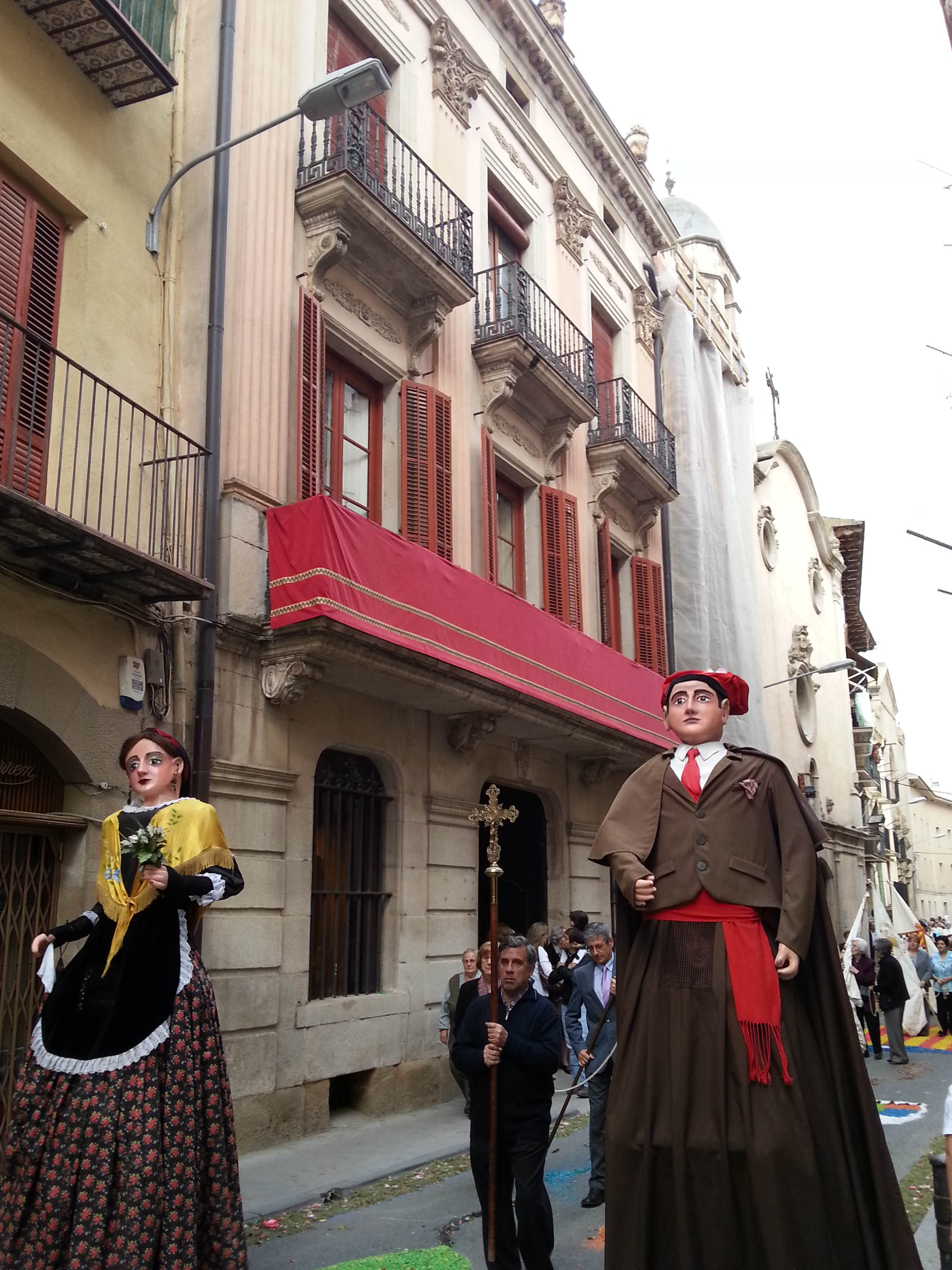 Pas pel carrer Miracle